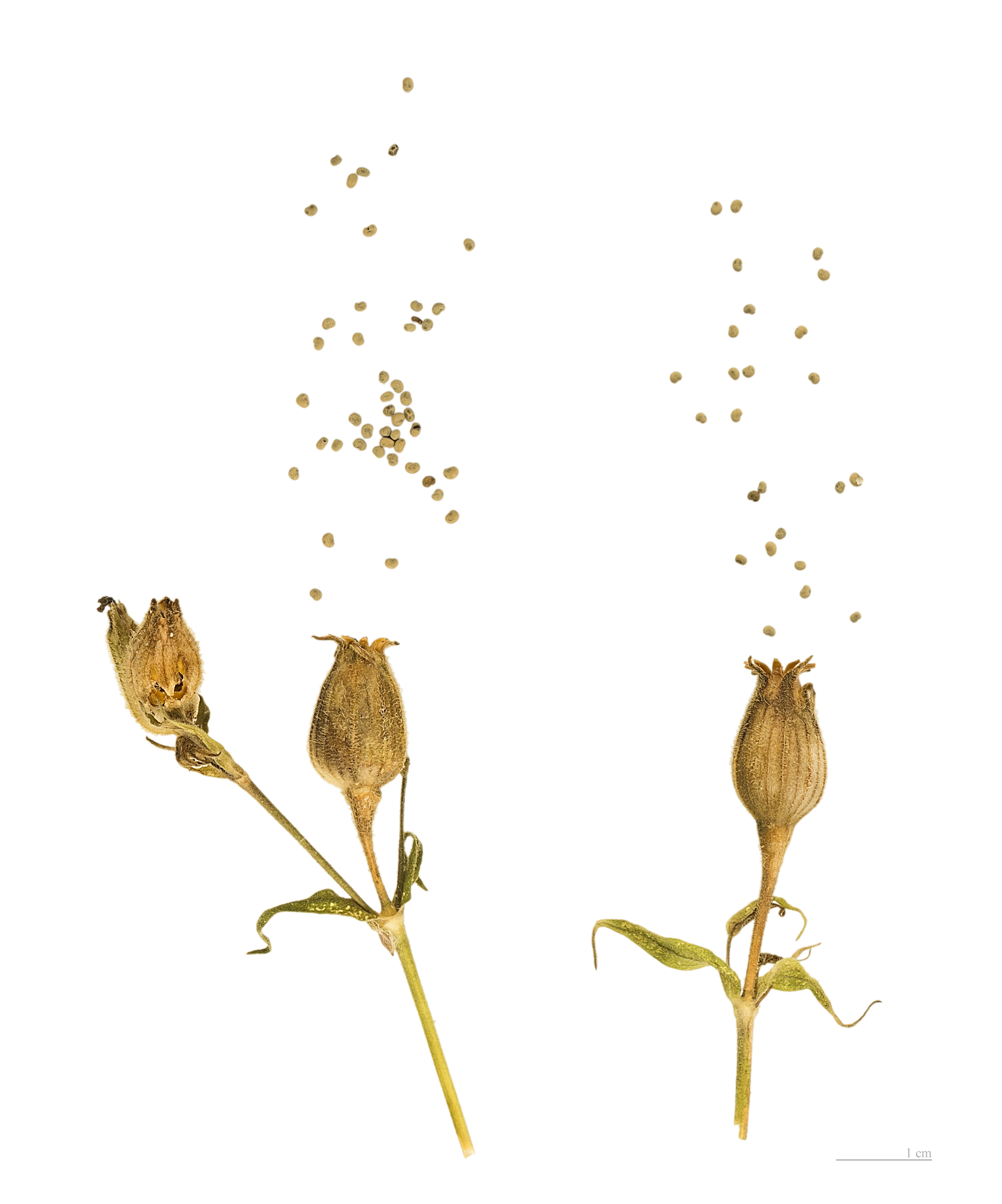 White Campion, fruits and seeds